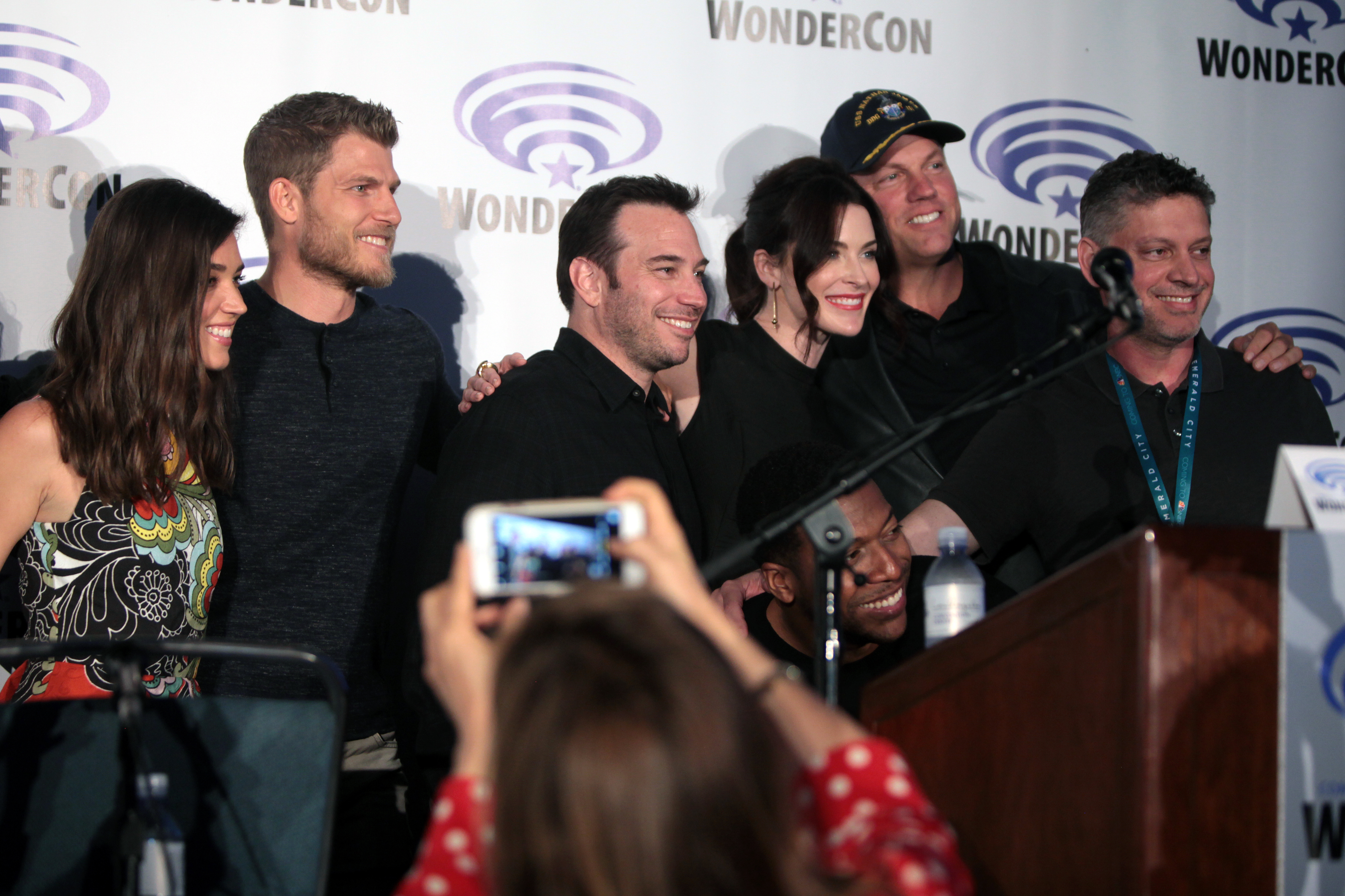 Marissa Neitling, Travis Van Winkle, Hank Steinberg, Bridget Regan, Jocko Sims, Adam Baldwin and Steven Kane speaking at the 2016 WonderCon, for "The Last Ship", at the Los Angeles Convention Center in Los Angeles, California.